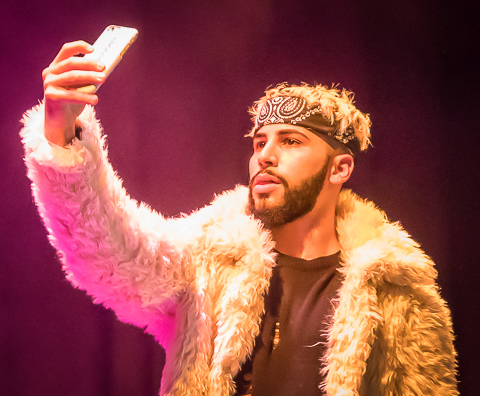 Adam Saleh at the stage of Cosmopolite. The concert took place on 4. December 2016 in Oslo. Lineup:Kamal Raja (rap)Jasz Gill (rap)Adam Saleh (rap)Slim (rap)Bambi Bains (vocal)Rupika Vaidya (vocal)